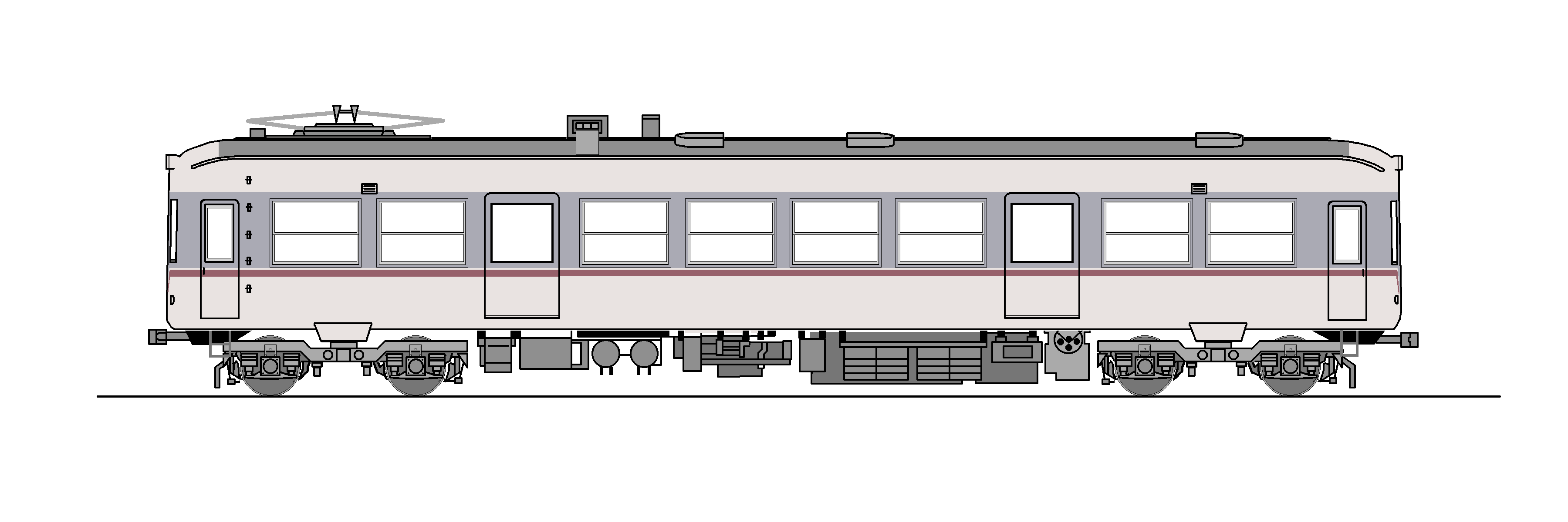 The side view of the EMU series 14790(Moha 14791) of Toyama Chihou Railway.